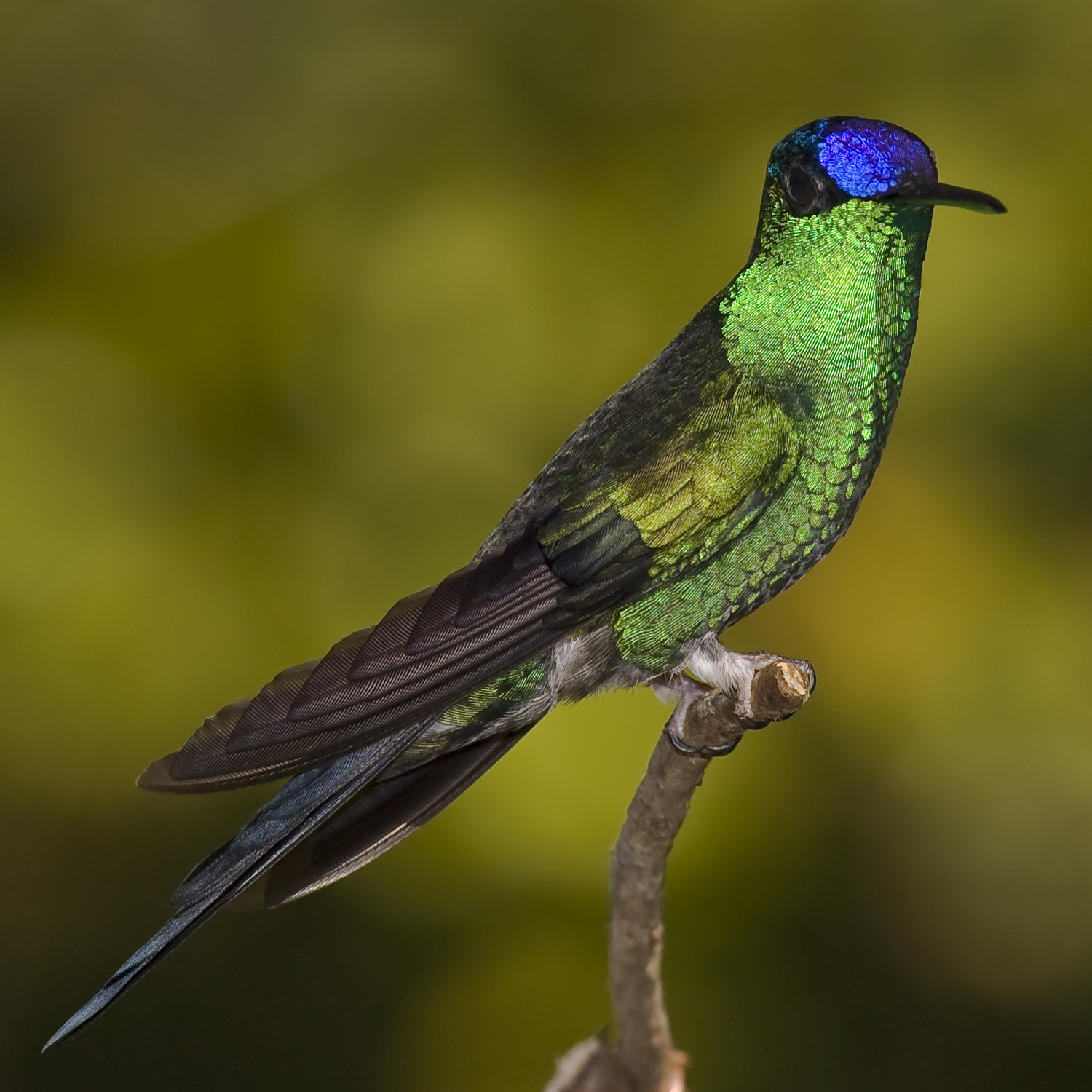 Violet-capped Woodnymph (Thalurania glaucopis) on a branch in Campo Limpo Paulista, São Paulo state, Brazil